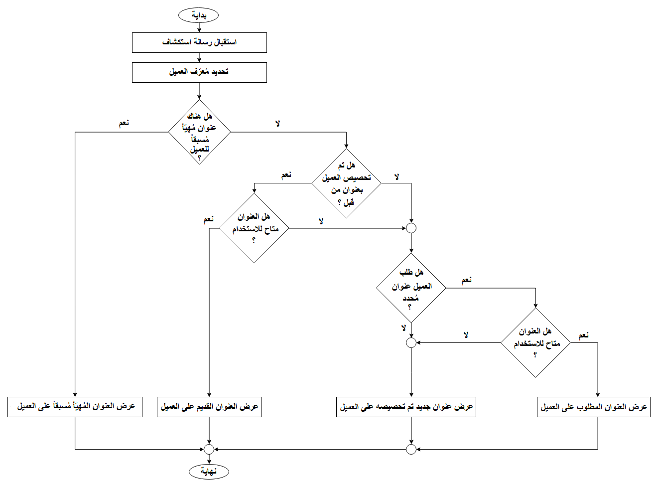 A flowchart for the allocation and assigning of an IP address in DHCP.